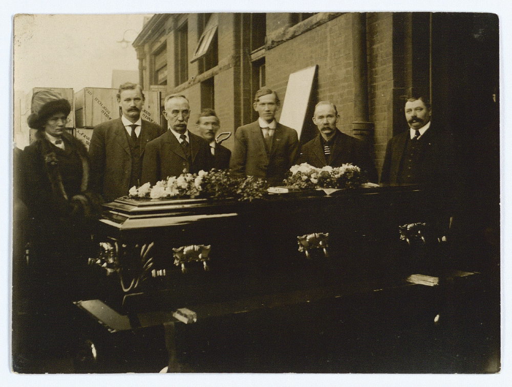 Herman Bang's Coffin, Feb. 7th 1912, Ogden, Utah KB id: ke002083 Department of Maps, Prints and Photographs, The Royal Library, Denmark.